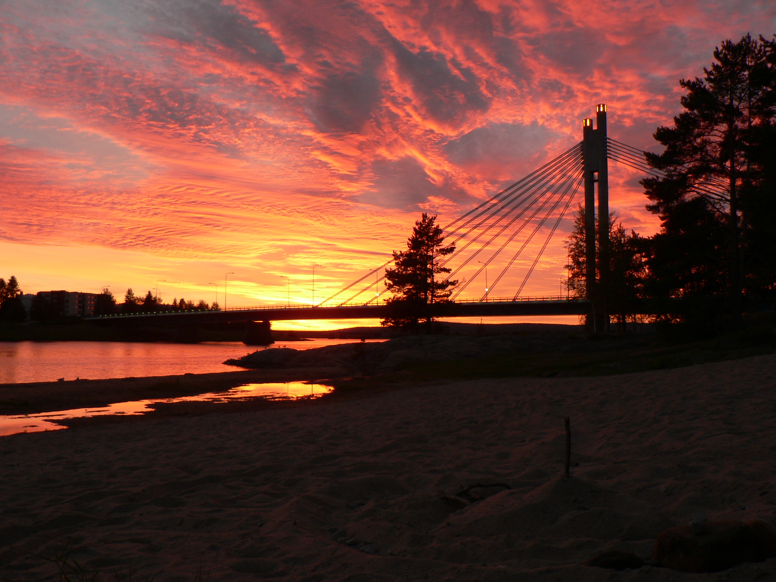 Jätkänkynttilä bridge in Rovaniemi, Finland, seen from the eastern bank of the River Kemijoki, looking north